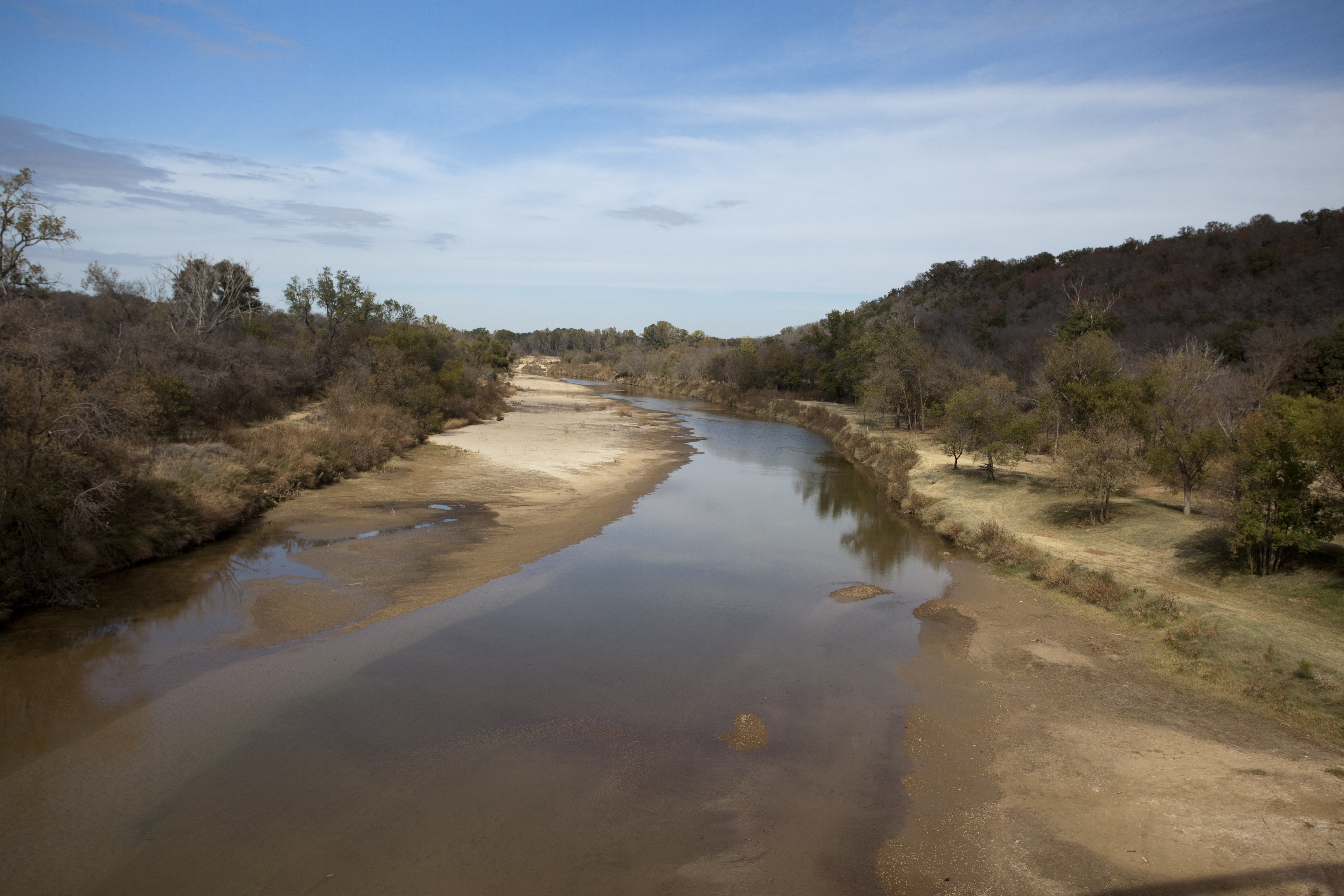 View of Brazos north of Interstate 20, Parker County, Texas. This section of the Brazos, between Possum Kingdom and Lake Granbury, was the focus of John Graves' classic book Goodbye to a River.